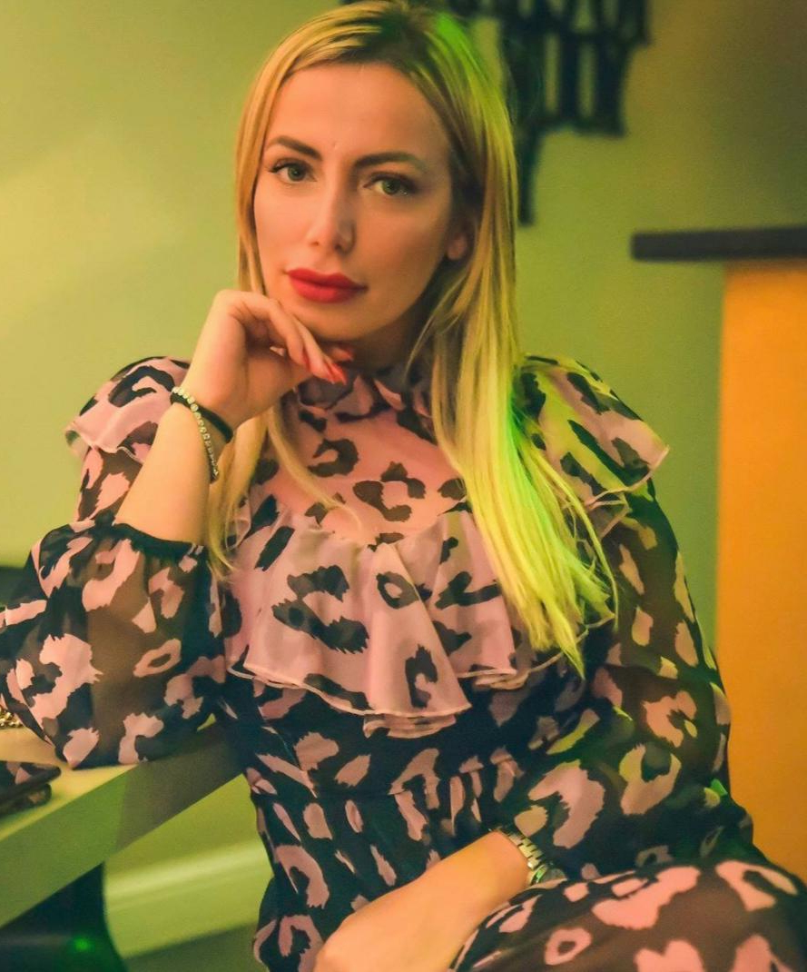 Erilda Mehmeti Fashion